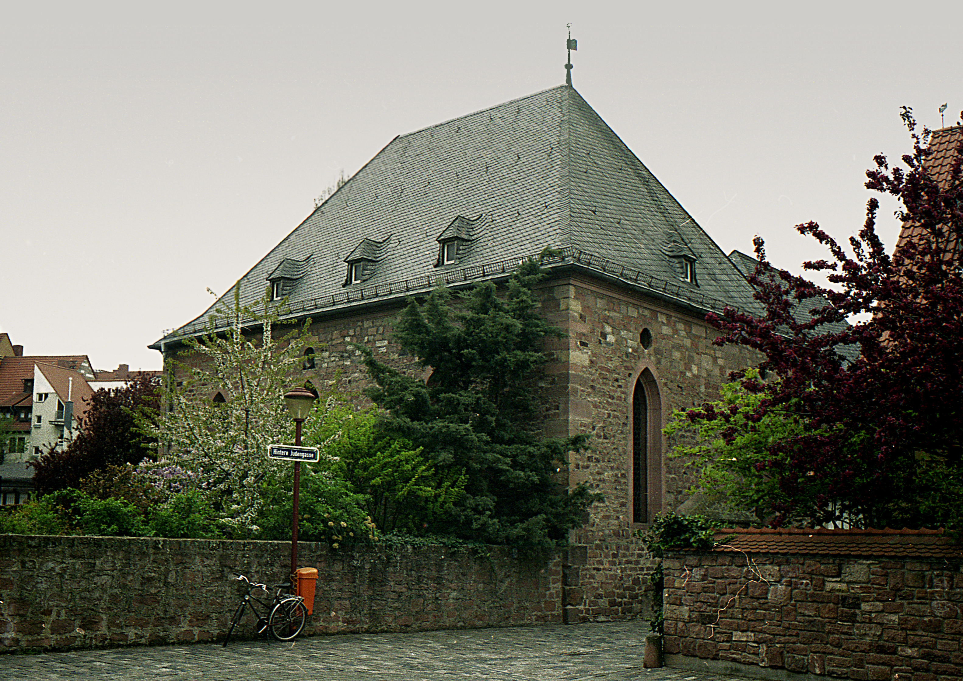 Male synagogue. Worms.